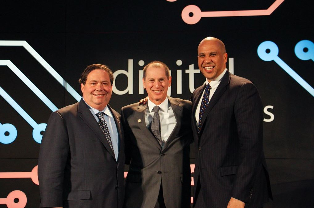 Gary Shapiro with CTA's 2016 Digital Patriots, Sen. Corey Booker and Rep. Blake Farenthold, in Washington, D.C.